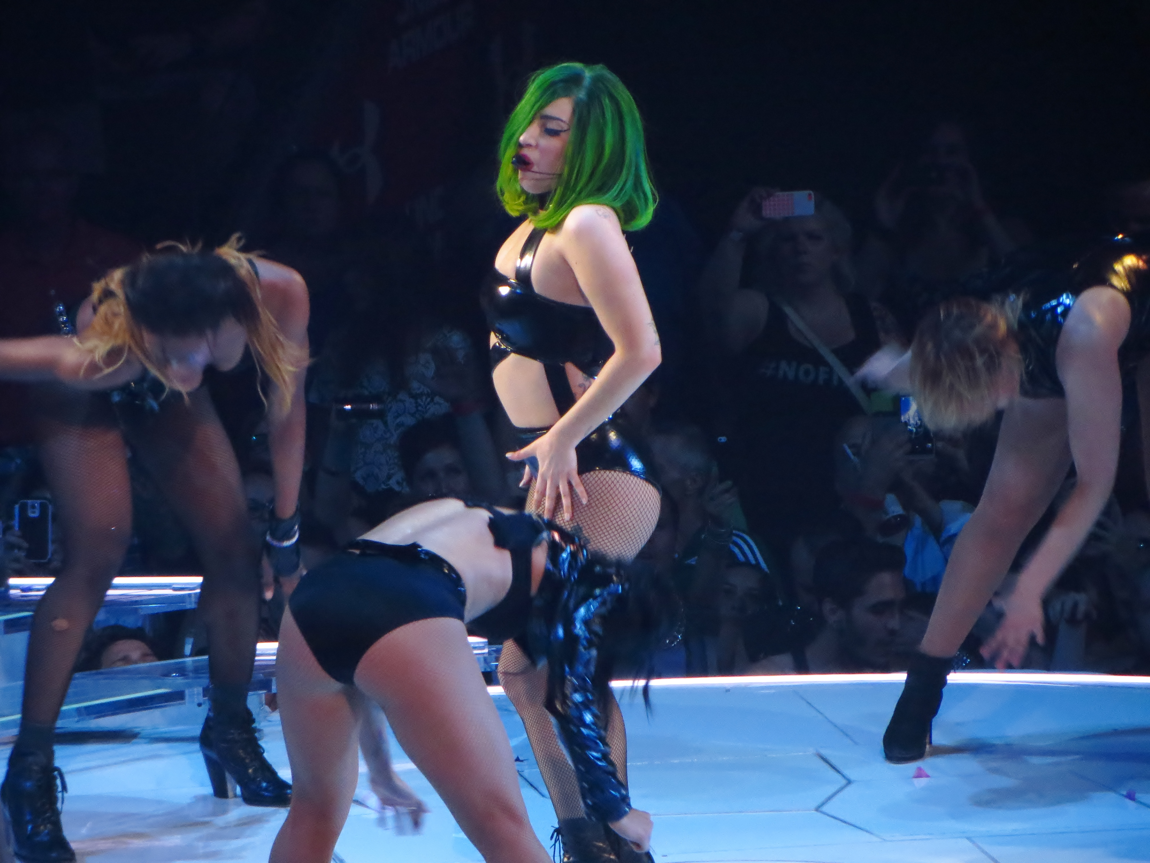 Lady Gaga, ARTPOP Ball Tour, Bell Center, Montréal, 2 July 2014 (112) Gaga performing on ArtRave: The Artpop Ball tour